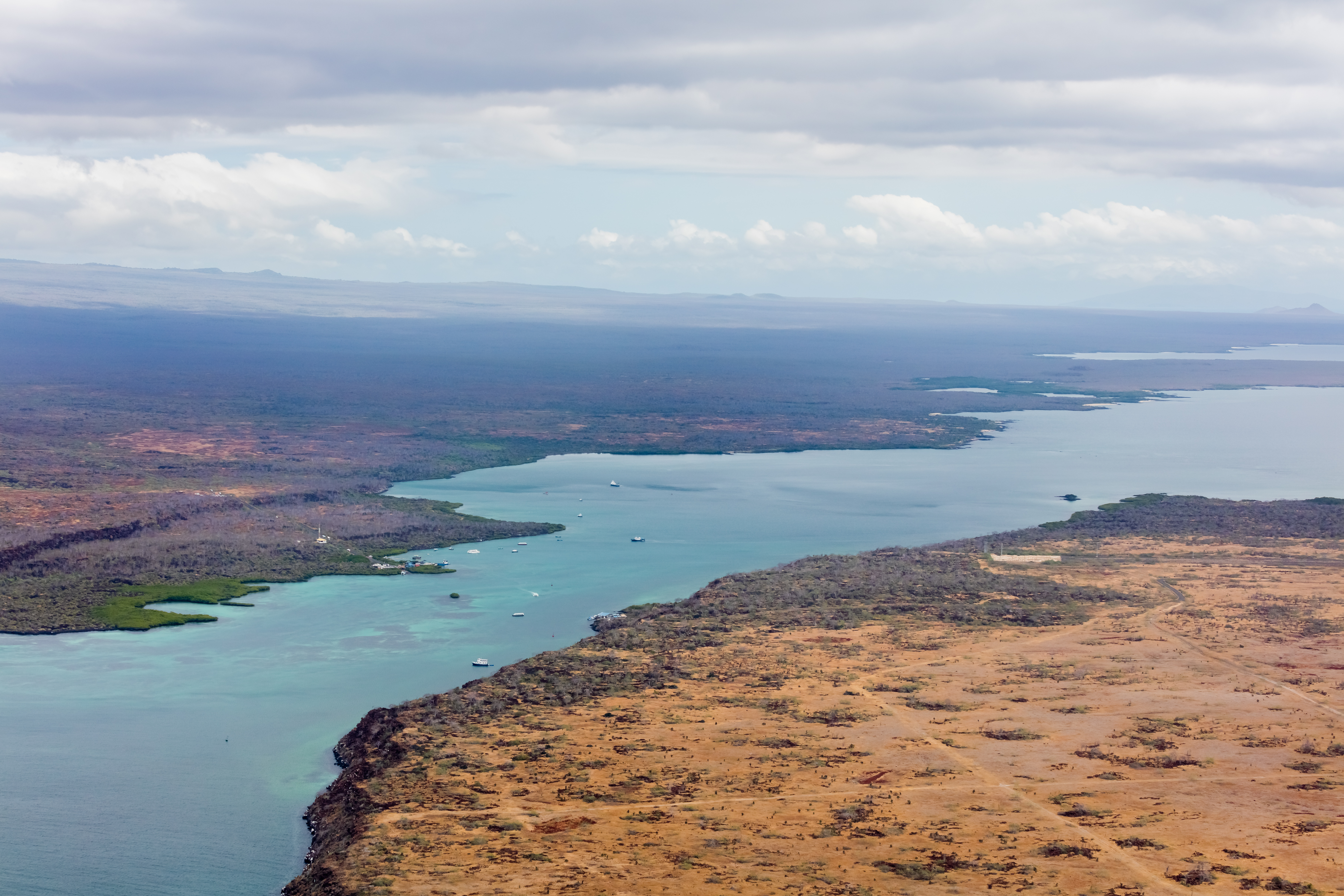 Baltra and Santa Cruz islands, Galapagos Islands, Ecuador